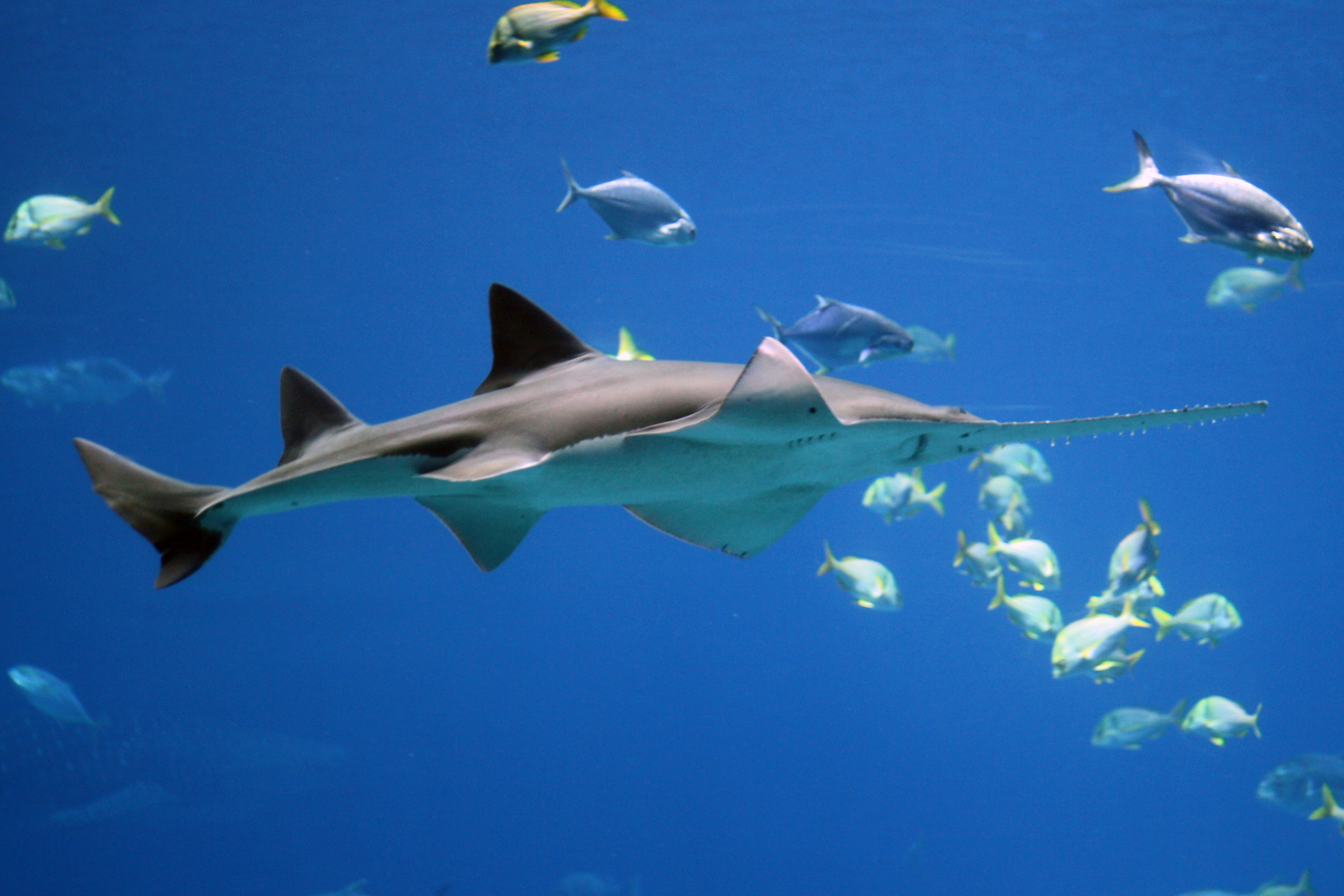 Sawfish, Pristis pristis (P. microdon is a synonym)